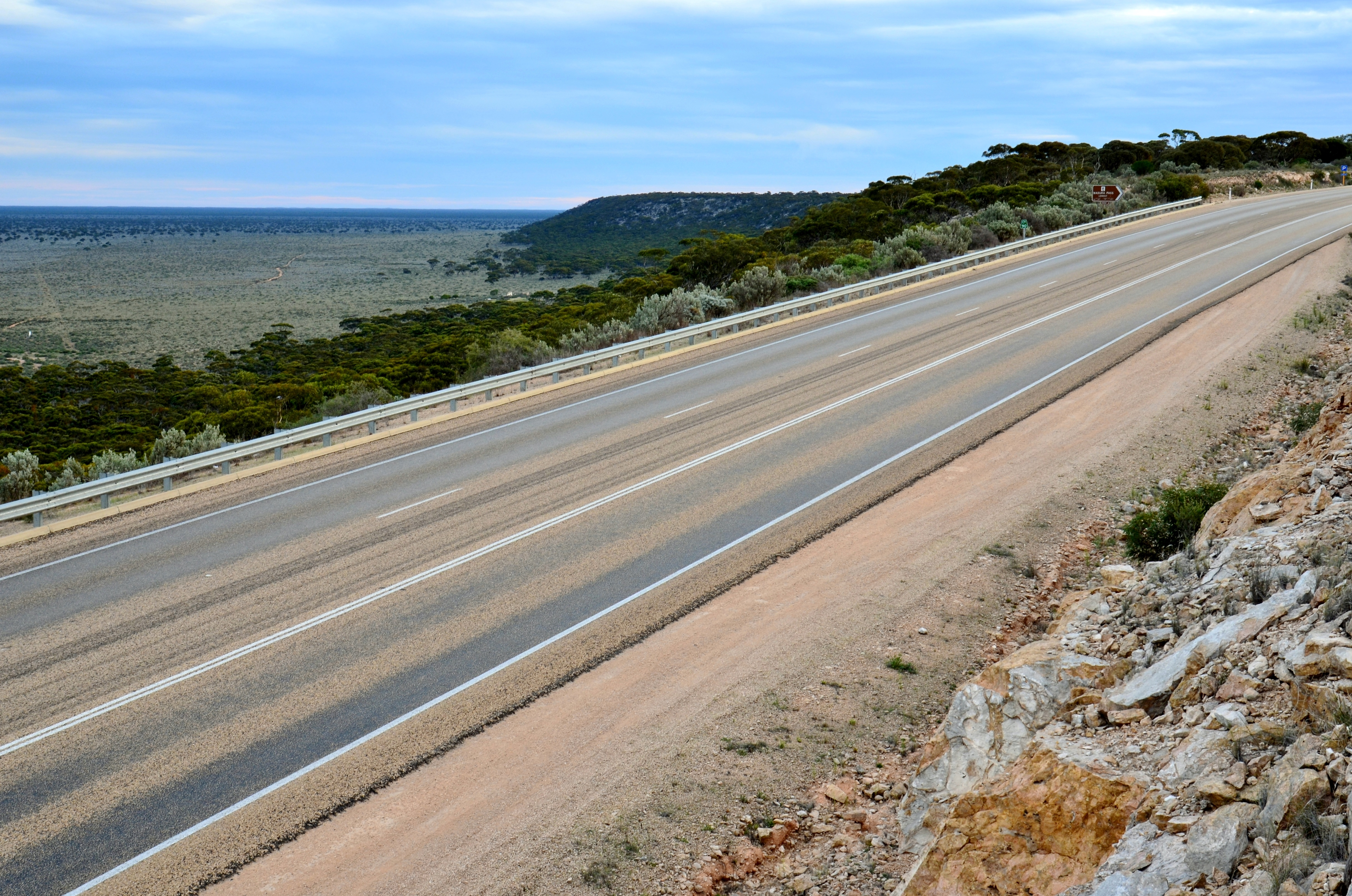 View over the Madura Pass, on the Eyre Highway at Madura, Western Australia, from the adjacent lookout. The Roe Plains are visible at left.